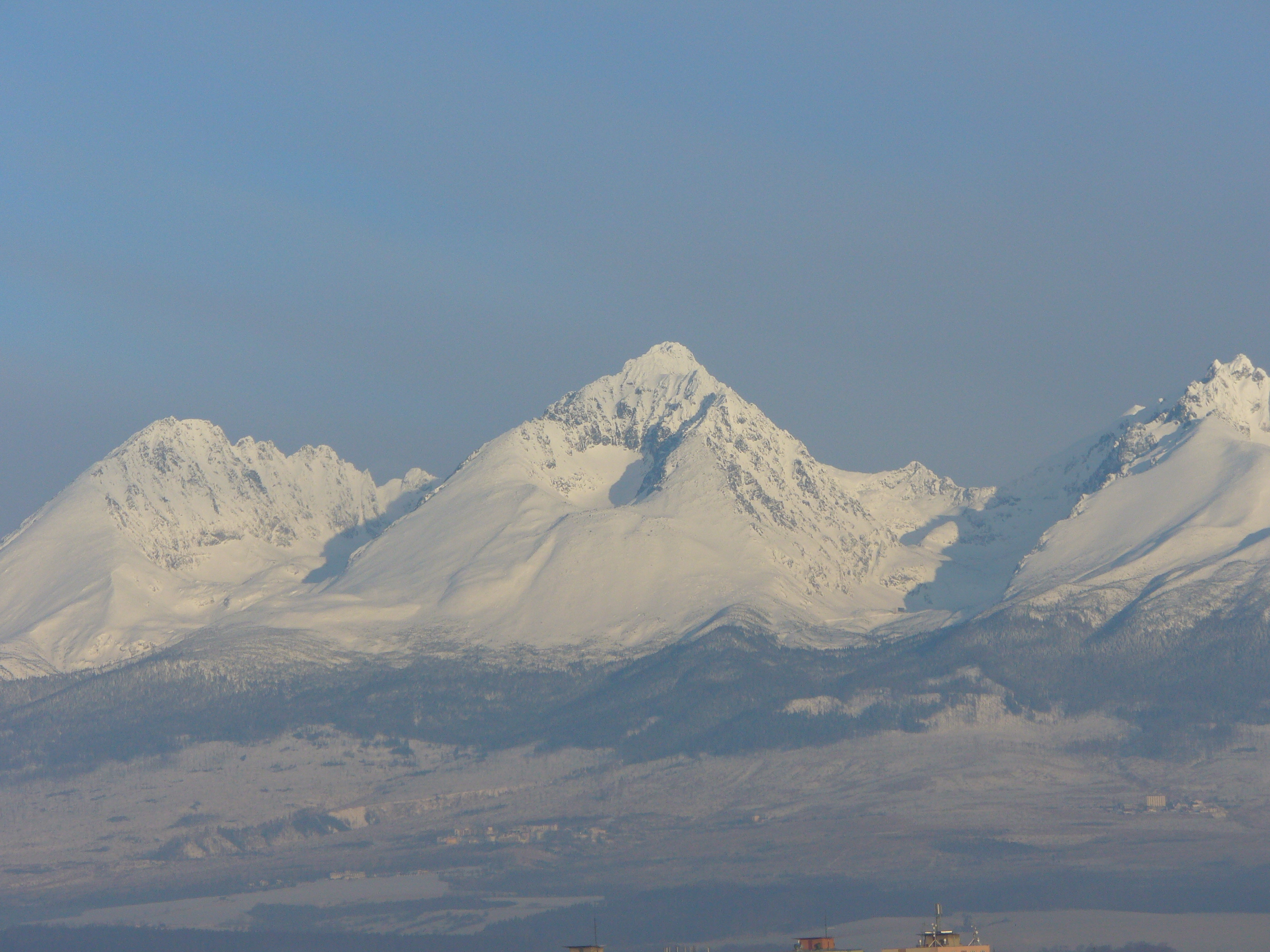 View of Gerlachovský štít from Poprad.